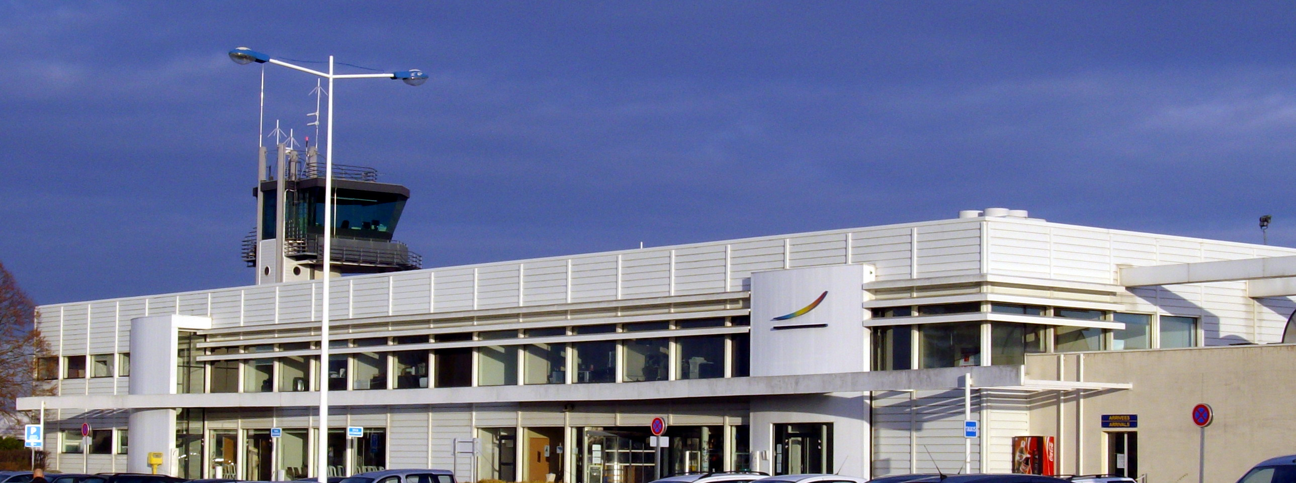 Aéroport Tours Val de Loire